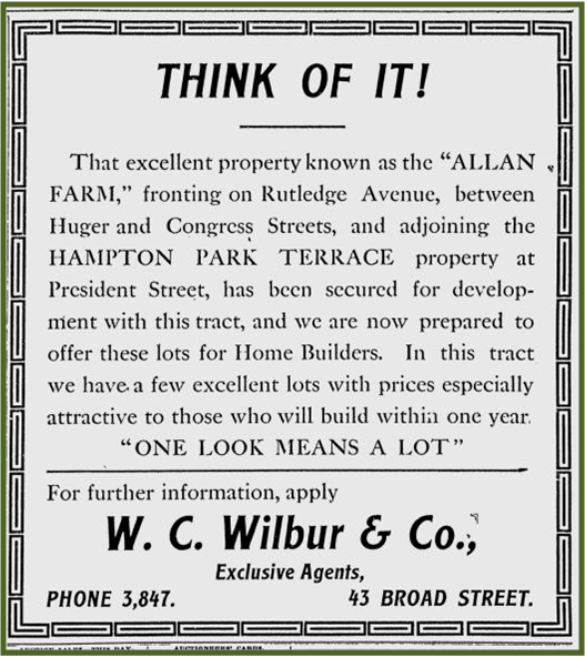 An advertisement from 1912 announced the start of sales of the newly laid out Allan Farm in Charleston, South Carolina.